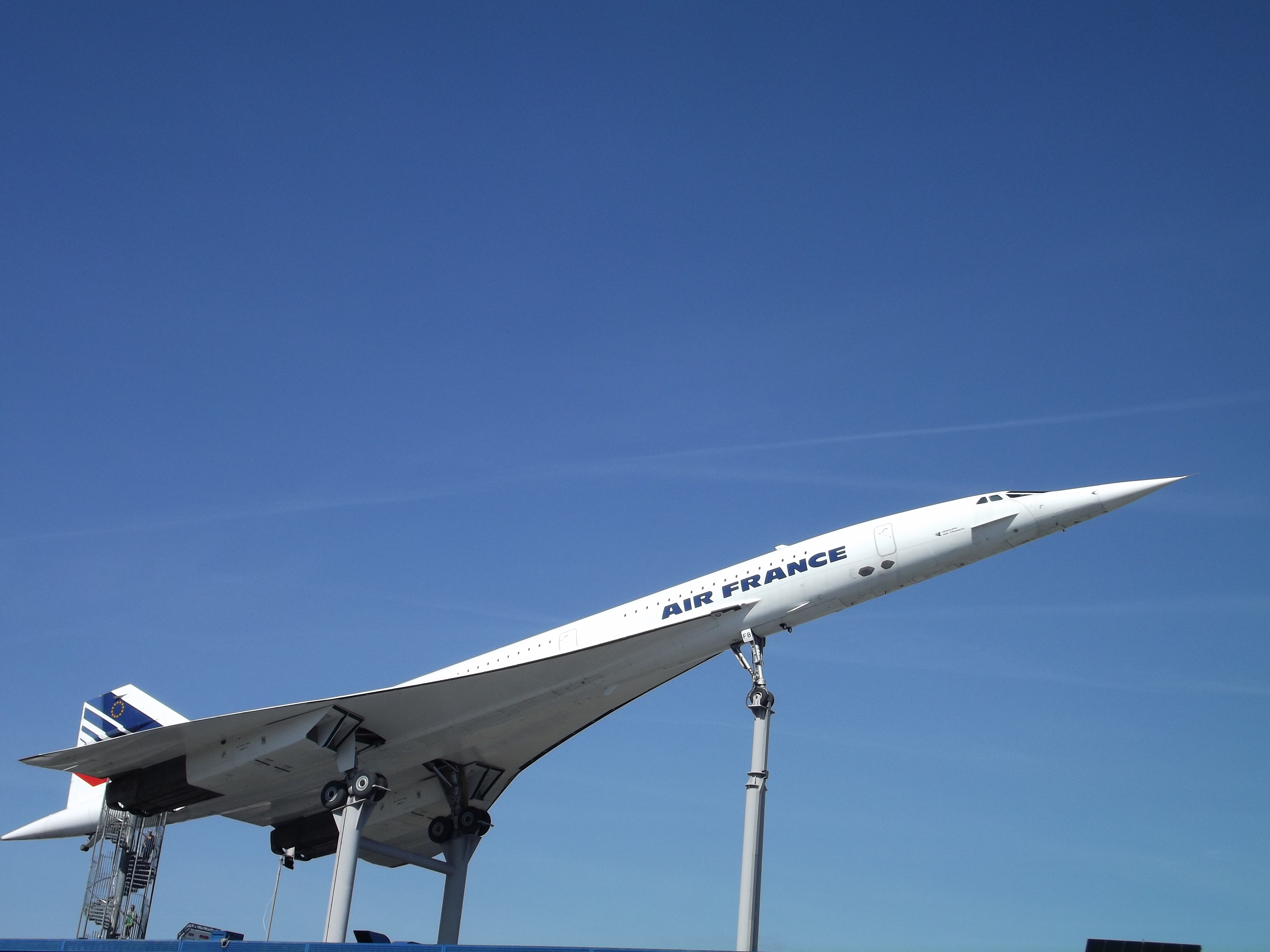 Concorde at Sinsheim museum